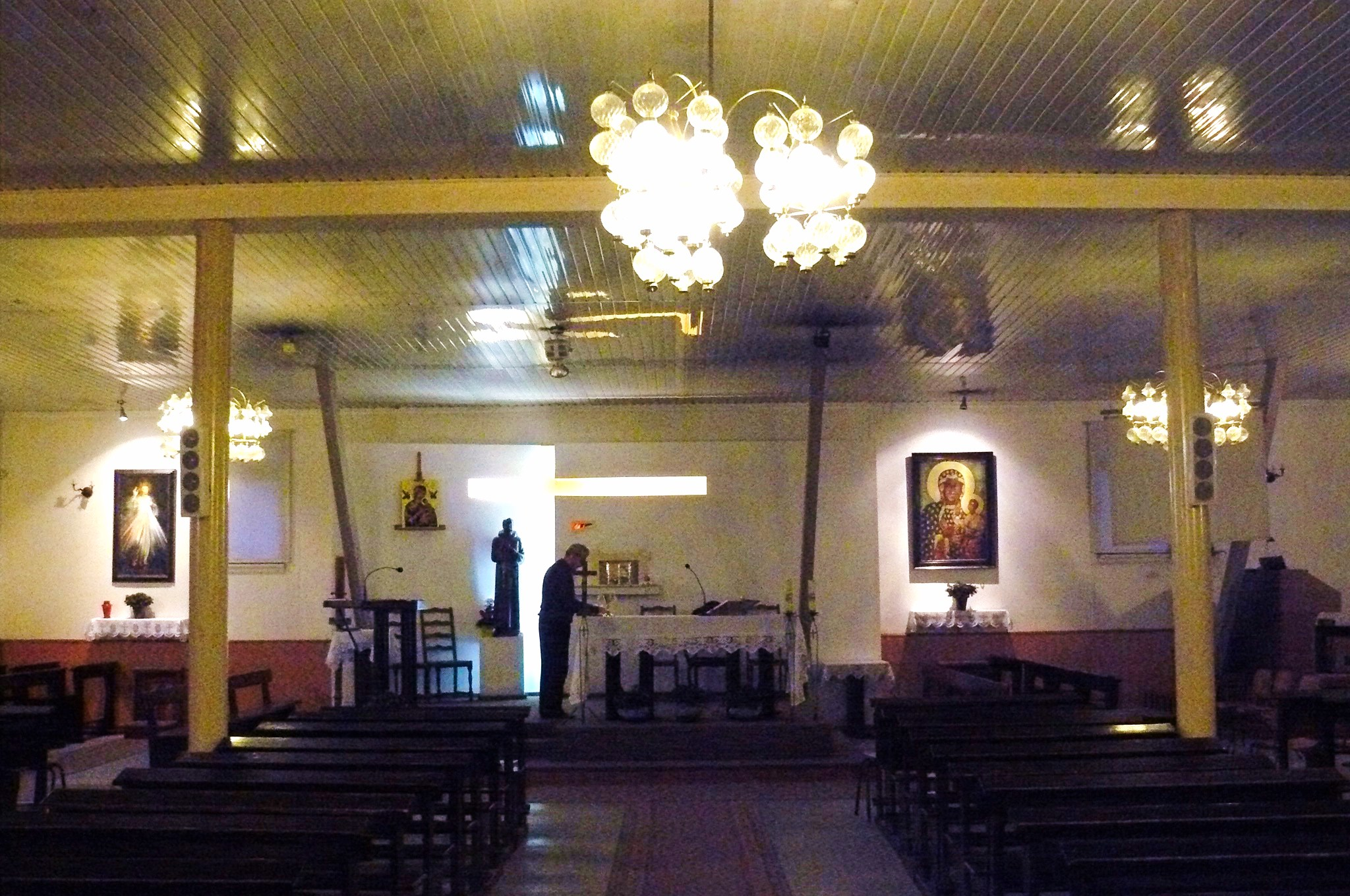 Old Pio-Church in Poznan, interior.